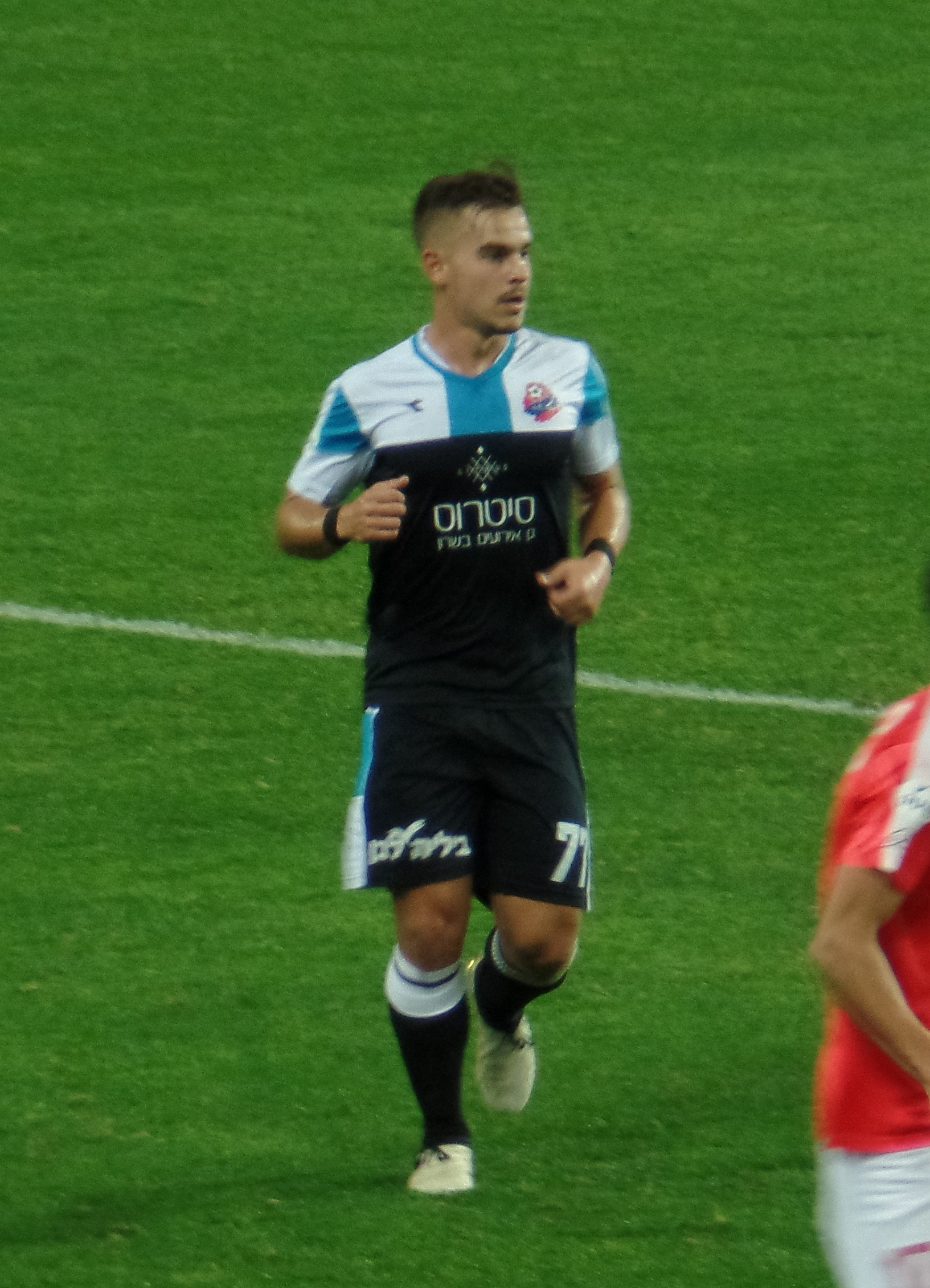 Maxim Plakuschenko SAMSUNG CAMERA PICTURES